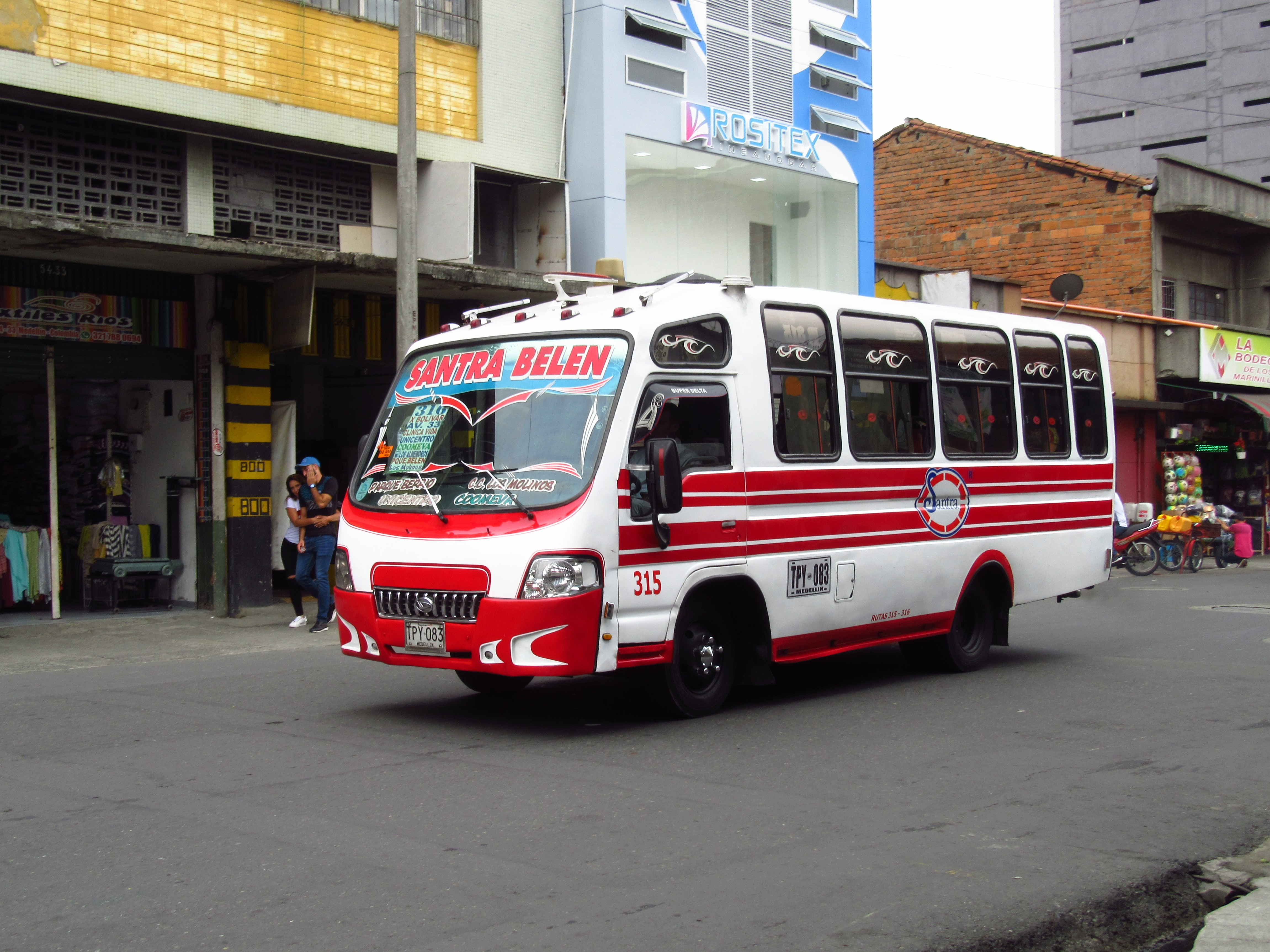 centro de Medellín